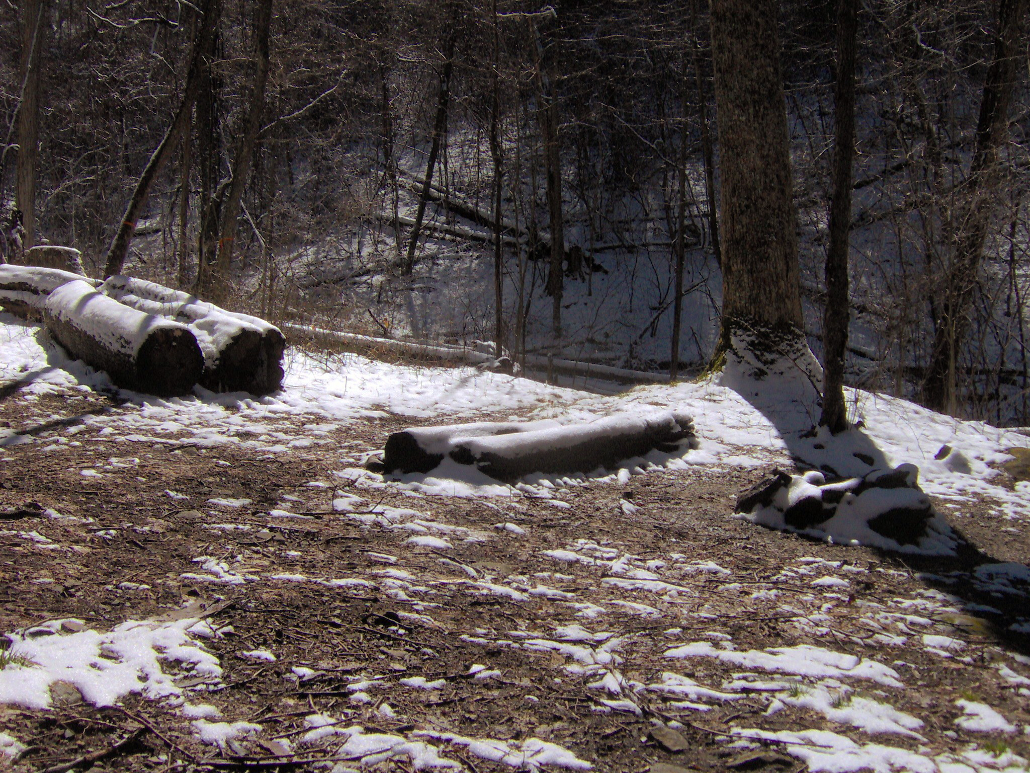 The Meigs Mountain Trail passing through Backcountry Campsite 19 (sometimes called Upper Henderson Campsite) in the Great Smoky Mountains of East Tennessee, in the southeastern United States. Before the formation of the park in the 1930s, this campsite was the home of Andy Brackin. The gully in the background is sliced by a headwater stream of Henderson Prong.